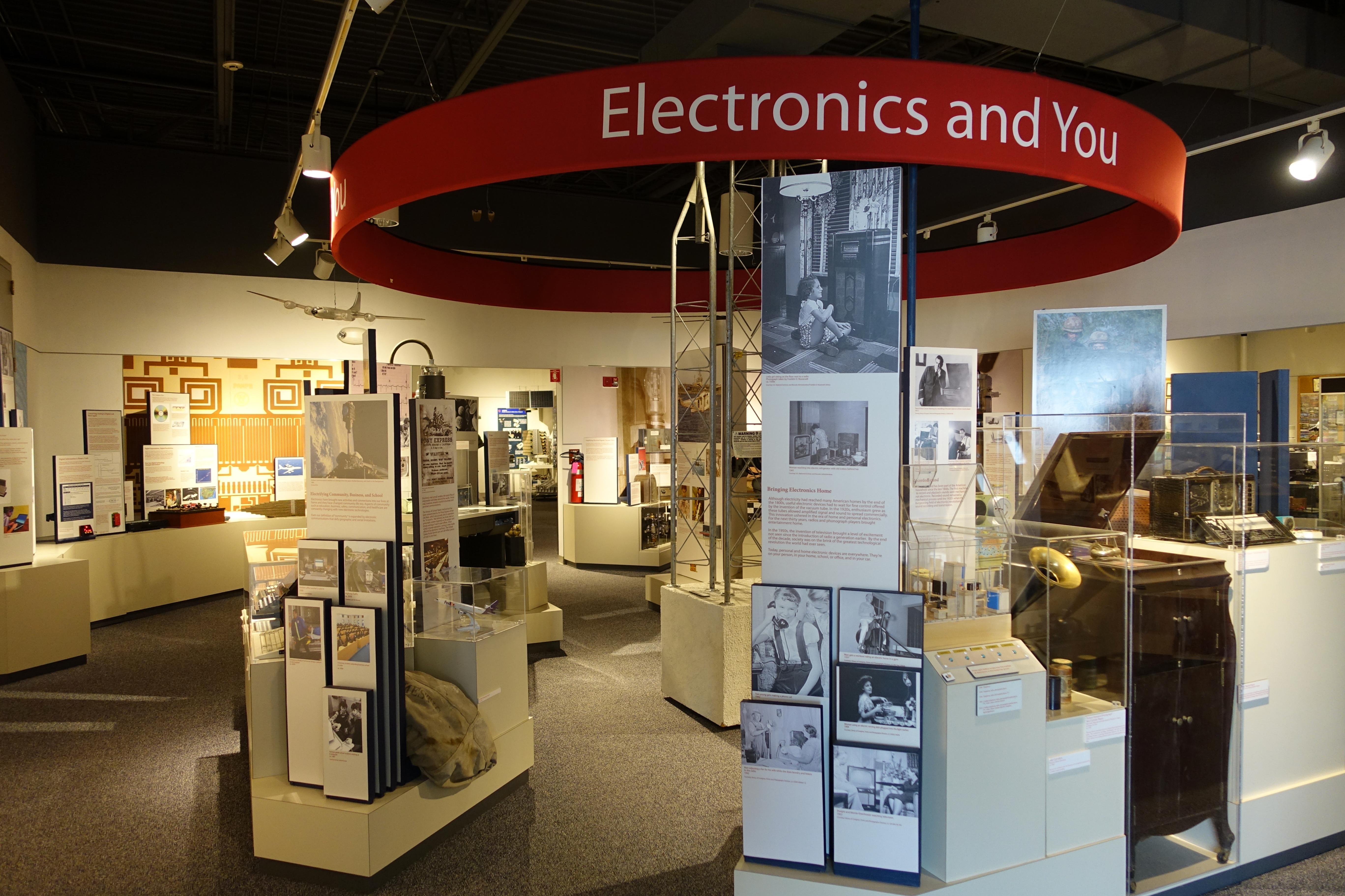 Interior view - National Electronics Museum, 1745 West Nursery Road, Linthicum, Maryland, USA. All items in this museum are unclassified. The museum permitted photography without restriction.